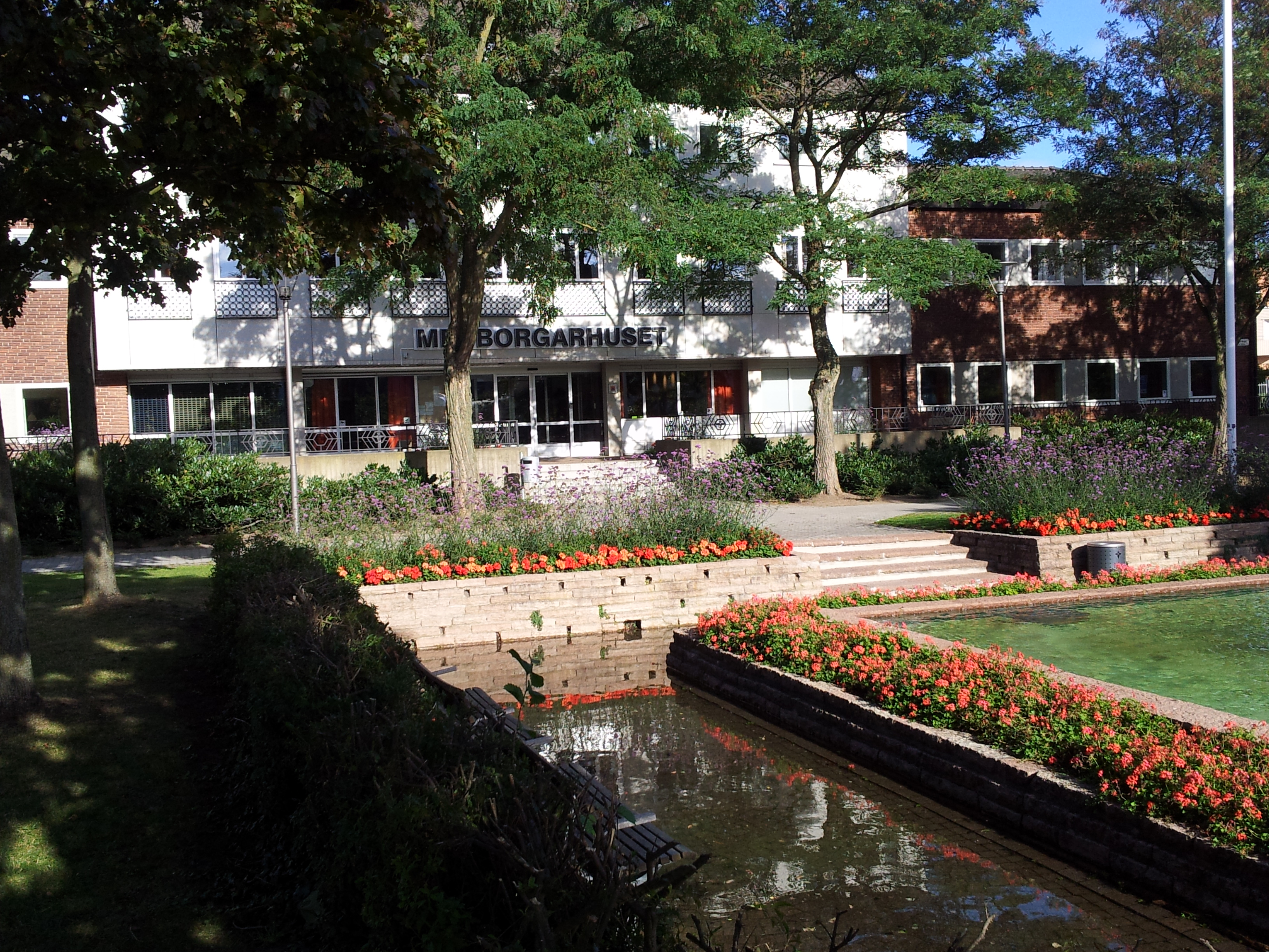 Burlöv municipal building